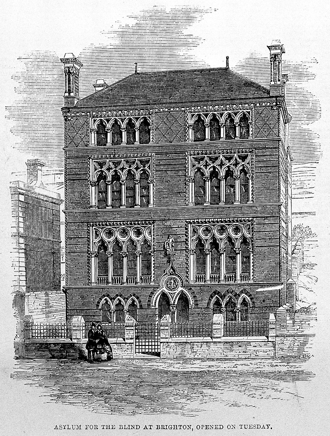 Asylum for the Blind, Brighton. General Collections Keywords: blind; Institutions; Sociology